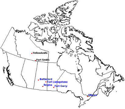 Former capitals of Northwest Territories in Canada: Fort Garry (1870–1876), Fort Livingstone (1876-1877), Battleford (1877-1883), Regina (1883-1905), Ottawa (1905-1967), Fort Smith (1911-1967), Yellowknife (1967-present).